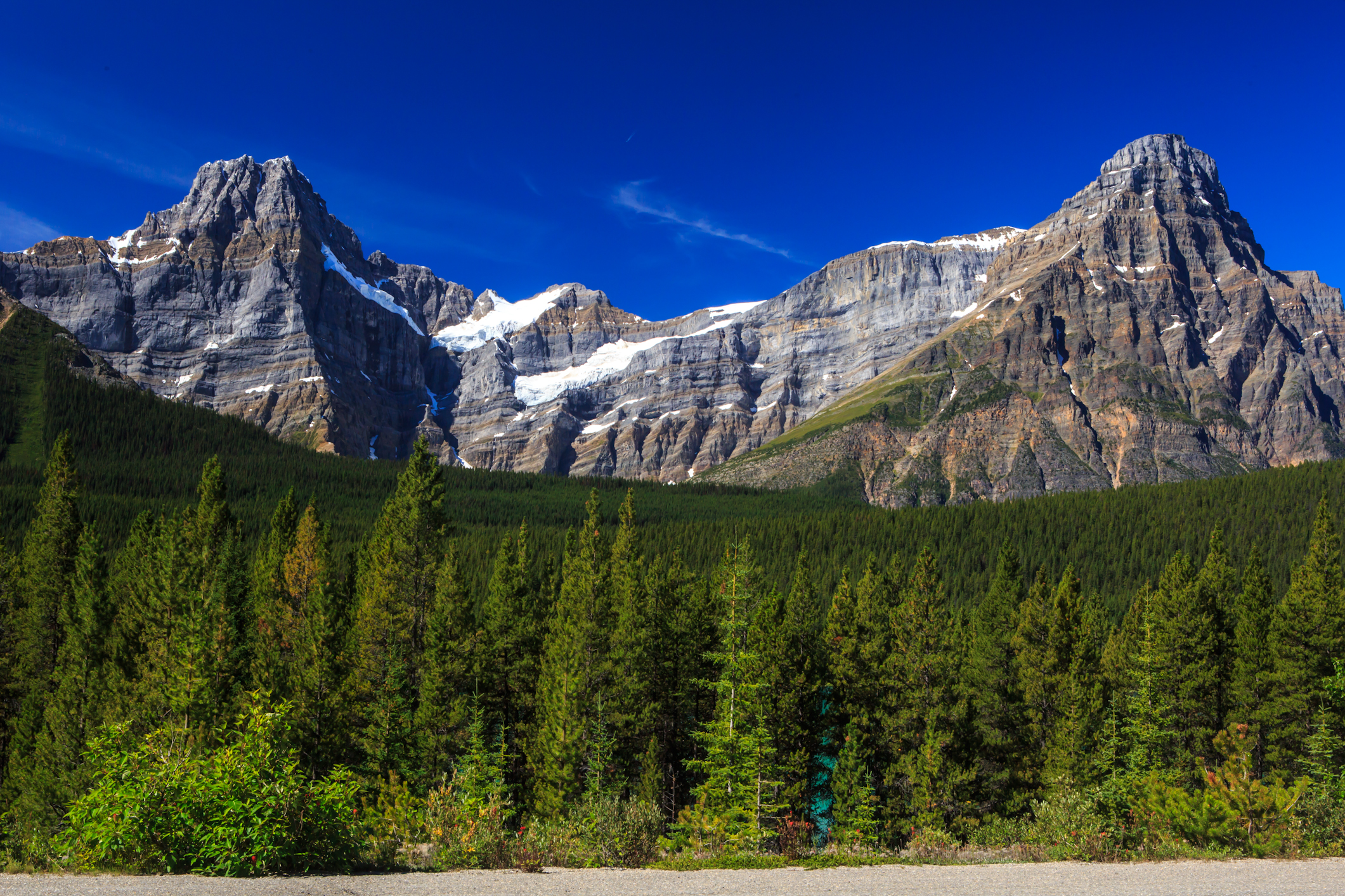 Howse Peak (3290m)& Mt Chephren (3307m)